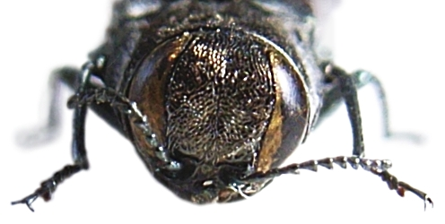 Front of Agrilus ater